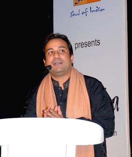 Rahat Fateh Ali Khan at the launch of his album Charkha